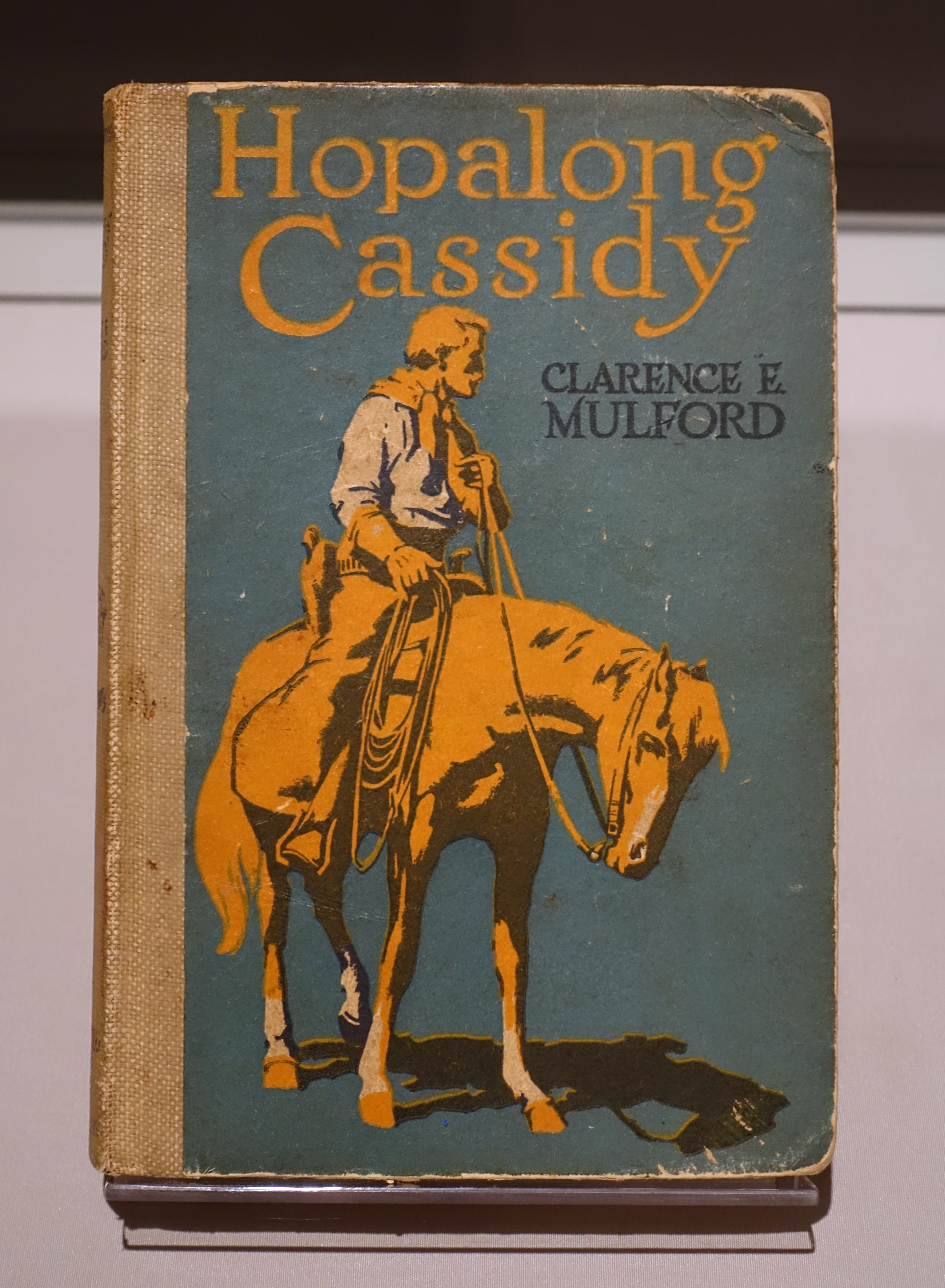 Exhibit in the Harry Ransom Center - University of Texas at Austin, Austin, Texas, USA. This work is old enough so that it is in the public domain.